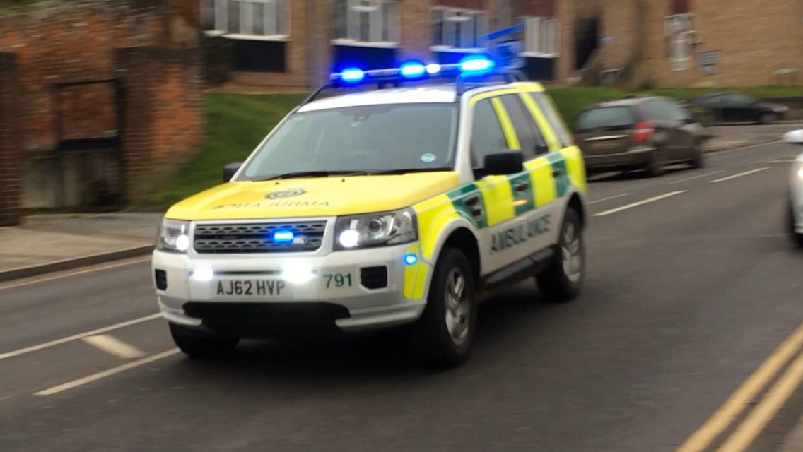 East of England Ambulance Land Rover Freelander RRV